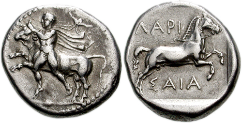 Greek coin from THESSALY, Larissa Greek coin depicting a Youth wrestling bull left / Bridled horse galloping